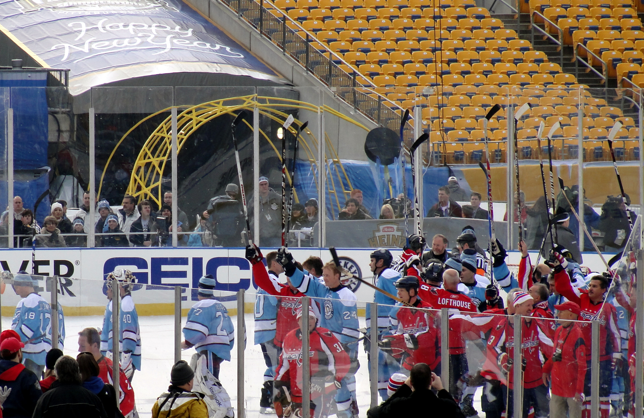 Members of the Pittsburgh Penguins and Washington Capitals alumni squads salute the crowd at Heinz Field following the NHL Legends Game, December 31, 2010.